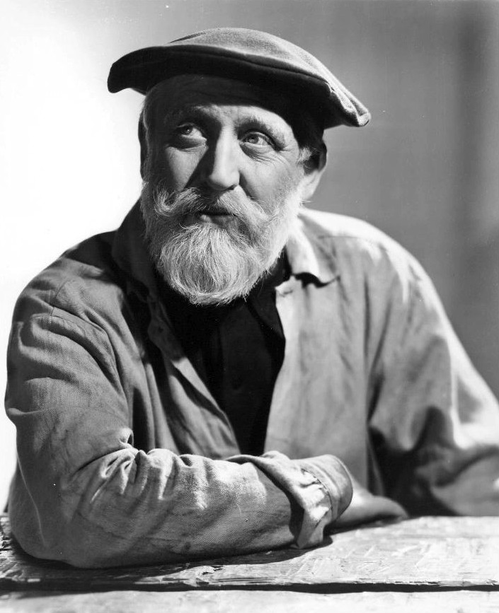 Photo of Monty Woolley from the film The Pied Piper.